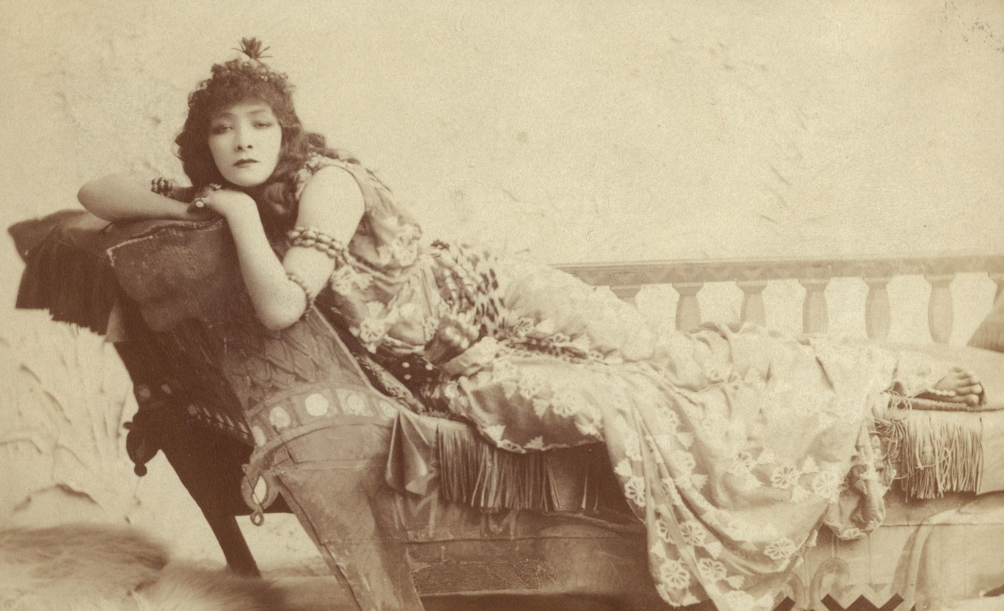 Cabinet card image of French actress Sarah Bernhardt (1844–1923) by Napoleon Sarony. Bernhardt is dressed as Cleopatra, 1891. TCS 2, Harvard Theatre Collection, Houghton Library, Harvard University